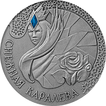 Belarus and the global community. Commemorative Coin "Snow karaleva"("Snow Queen")